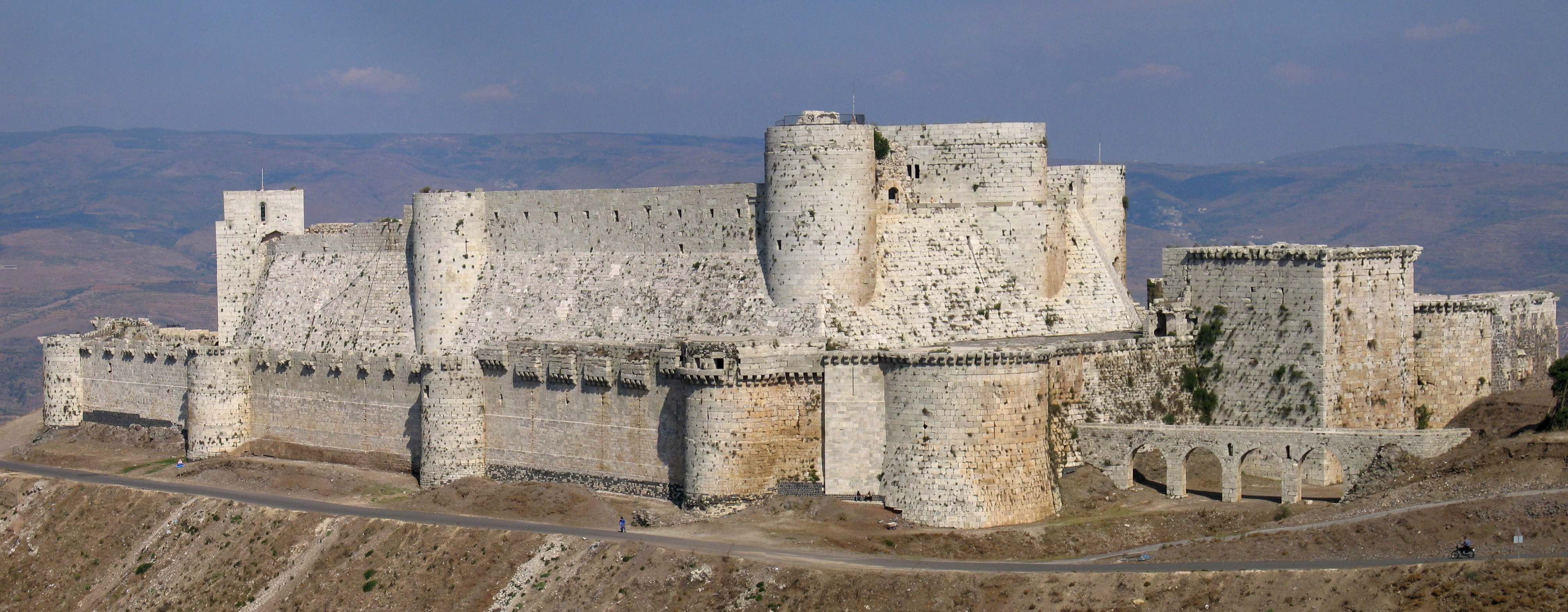 Krak des Chevaliers in Syria. It is an 11th century castle and was used in the Crusades. It was one of the first castles to use concentric fortification, ie: concentric rings of defence that could all operate at the same time. It has two curtain walls and sits on a promontory.